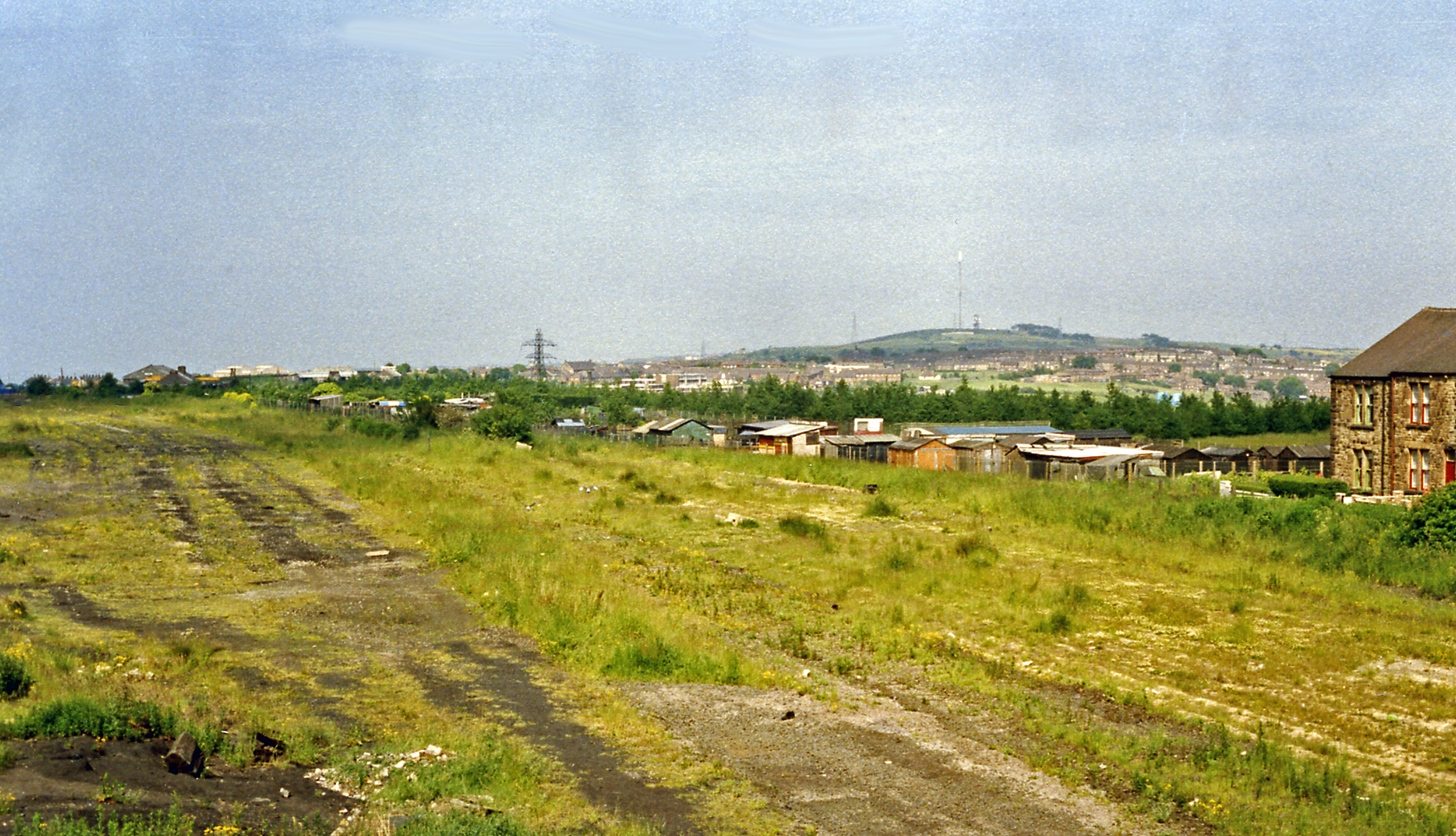 Site of Consett station, 1988. View NE, towards Annfield Plain, Birtley and Newcastle, also Pelaw and Tyne Dock: ex-NER line - passenger from Newcastle, goods from Tyne Dock. The latter included the celebrated heavy iron-ore workings to Consett Steelworks, which were on the Blackhill line, behind and to the west of this view. Consett station was closed to passengers from 23/5/55, but until 1980 this view would e full of railway sidings and the station buildings survived until then at least.